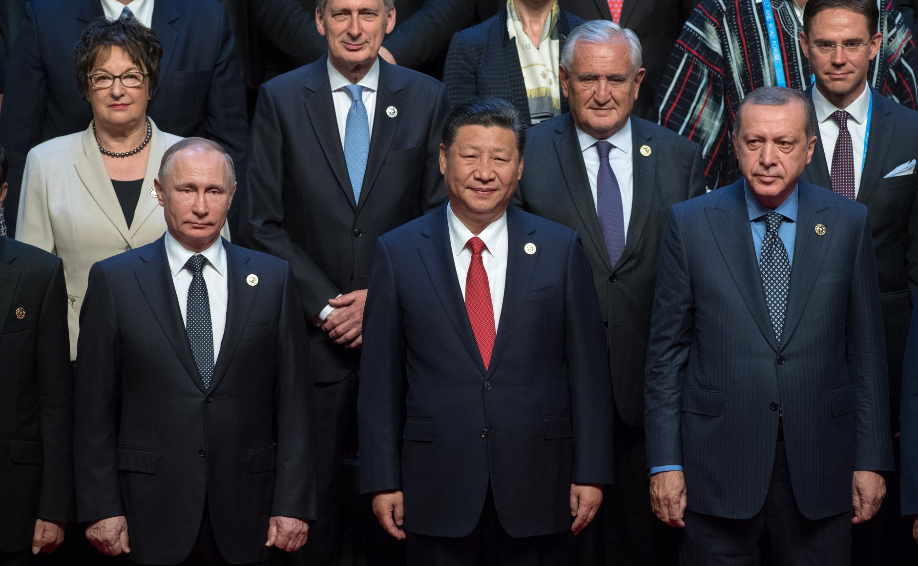 With participants of the Belt and Road international forum